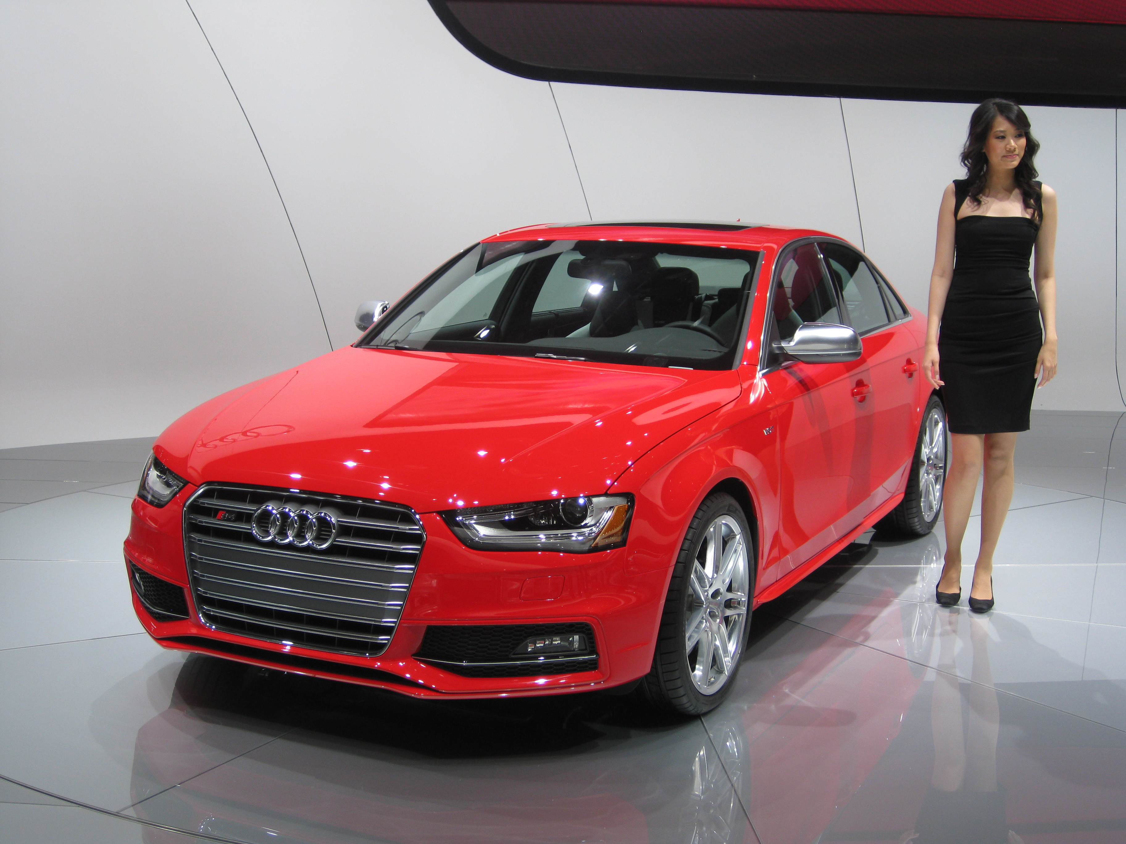 For more info and images please check